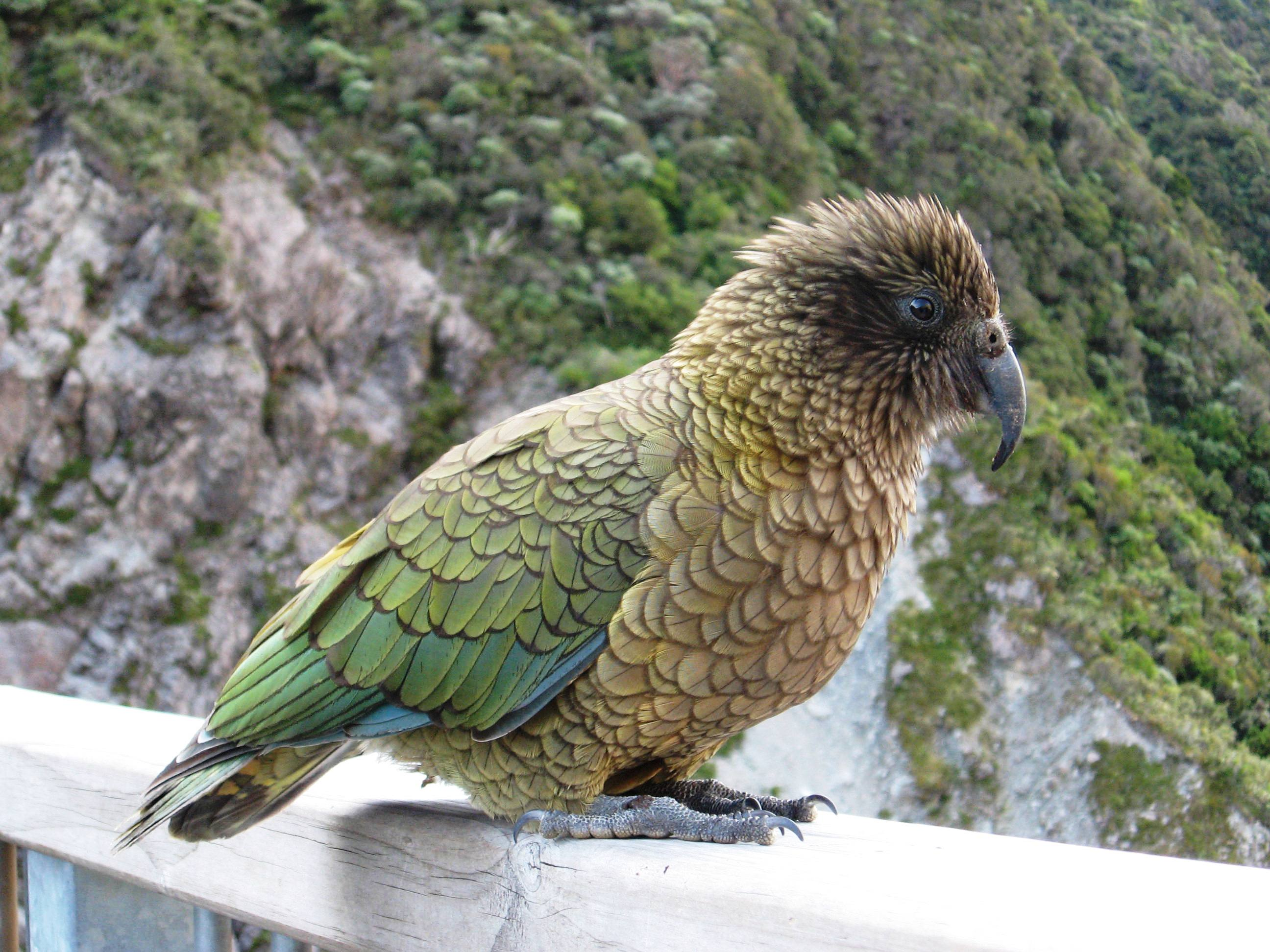 Kea (Nestor notabilis), living around Arthur's Pass, New Zealand.